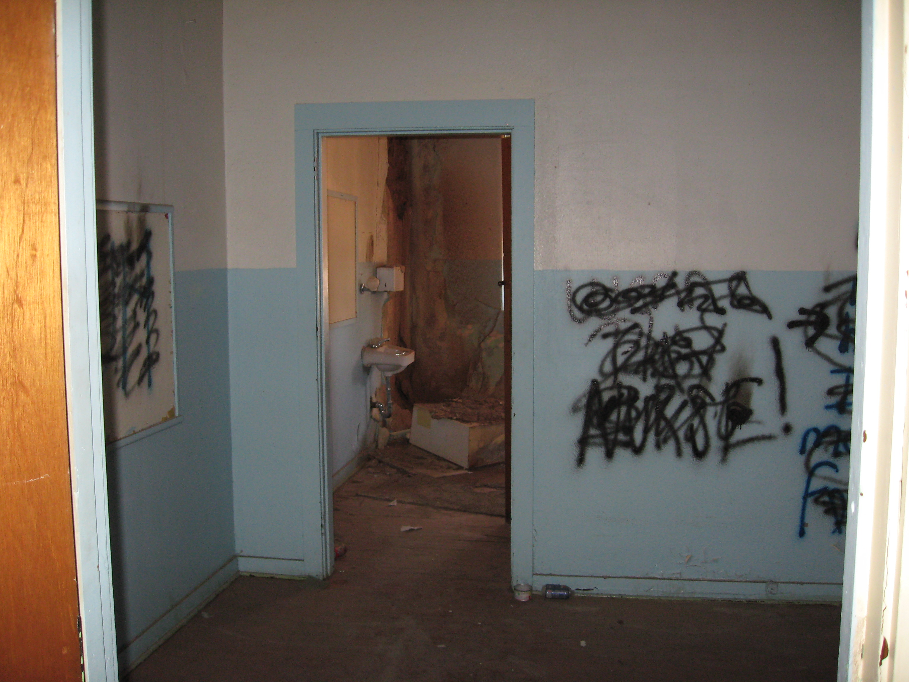 The nurse's office in the west (older) section of Granger School in Tucumcari, New Mexico. Days after demolition had started.